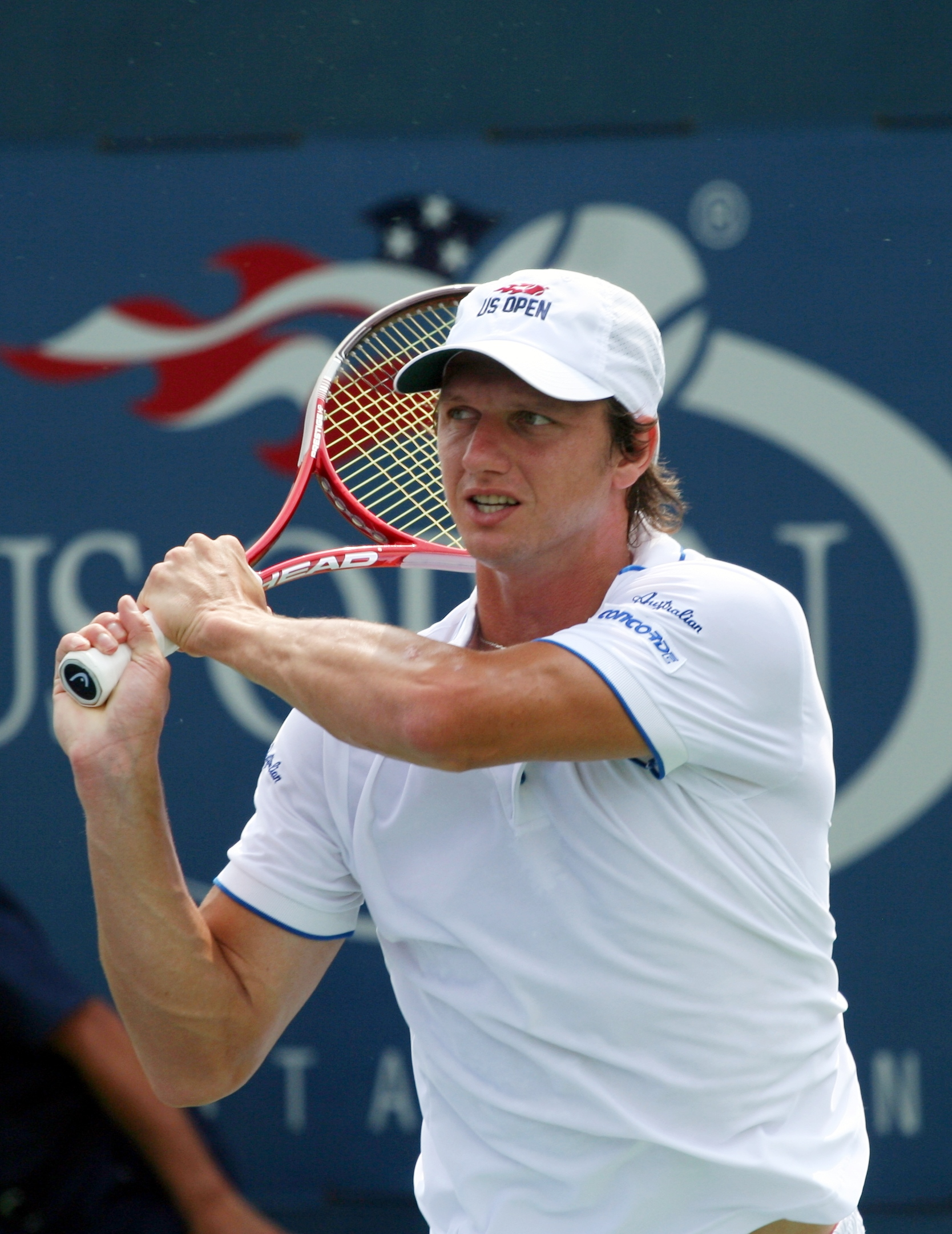 Wednesday, August 28